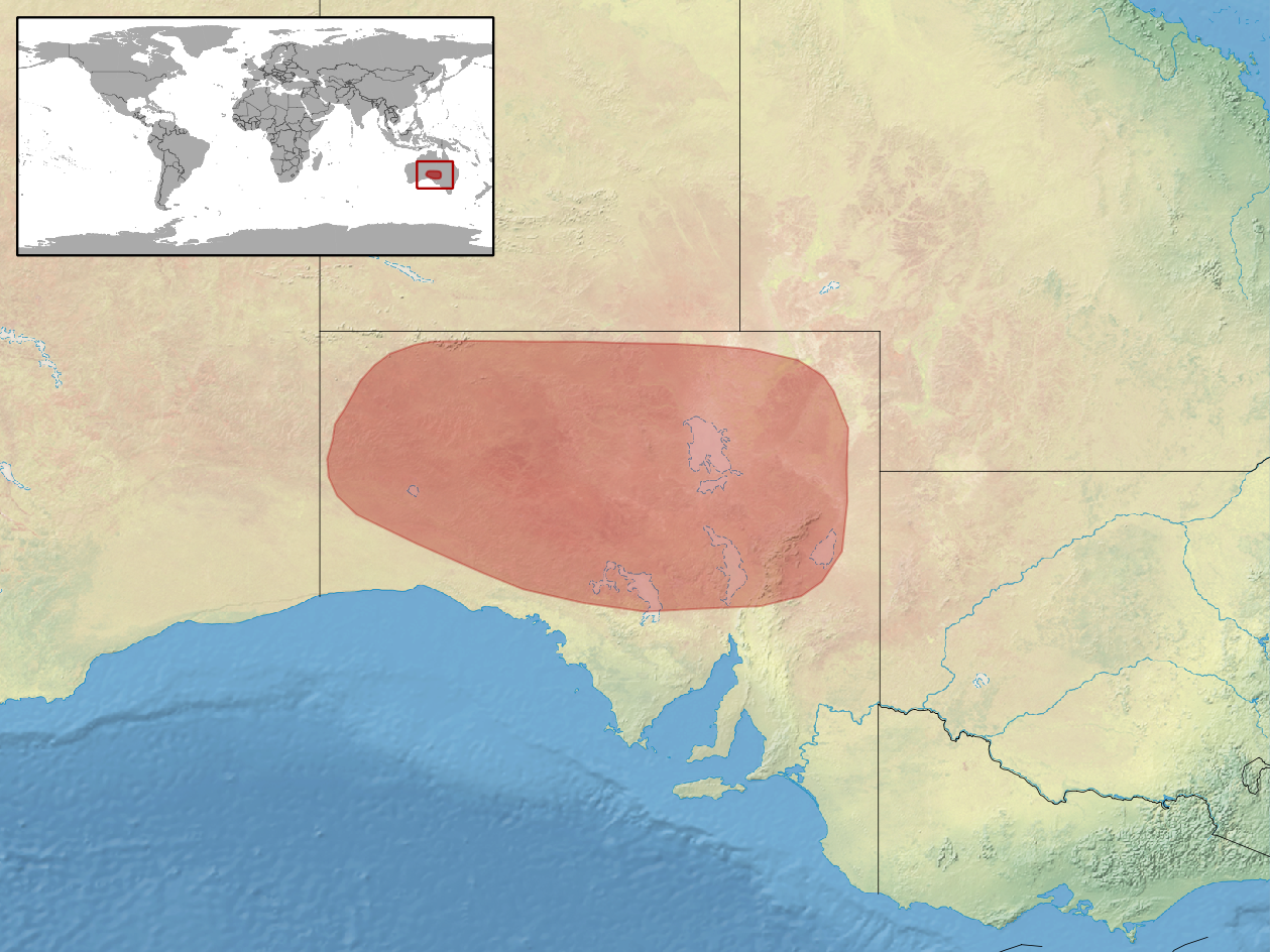 geographic distribution of Lerista elongata